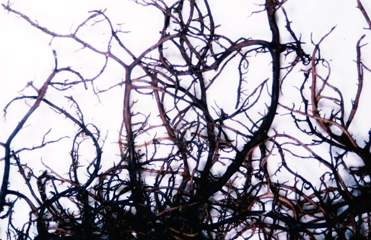 Bryoria bicolor (Ehrh.) Brodo & D. Hawksw. (herbarium specimen from Elmer G. Worthley's personal collection); labelled: "Museum botan. Univ. Lundensis/ Lichenes Suecici/ Västergötland. Floby./ 1898/ Leg. Carl Stenholm"; (No. L-186), specimen is presently in the Lichen Herbarium of the New York Botanical Garden.